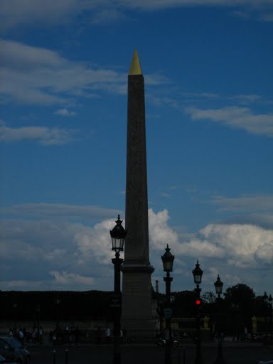 Obelisk（巴黎方尖碑）.jpg